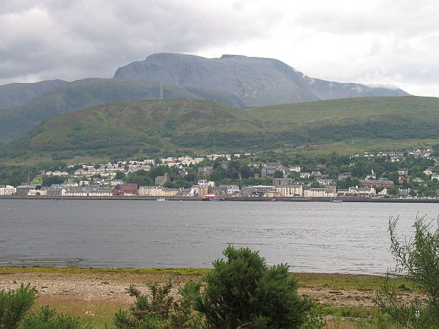 Fort William from Ardgour Across Loch Linnhe, and far enough away to see Ben Nevis above the town.